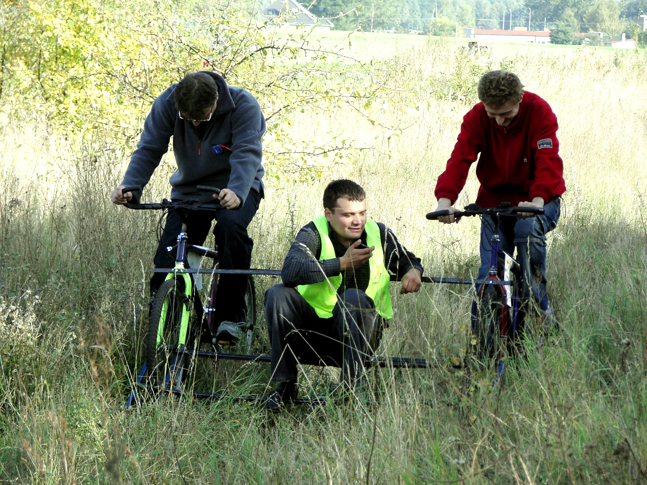 Amateur car rally